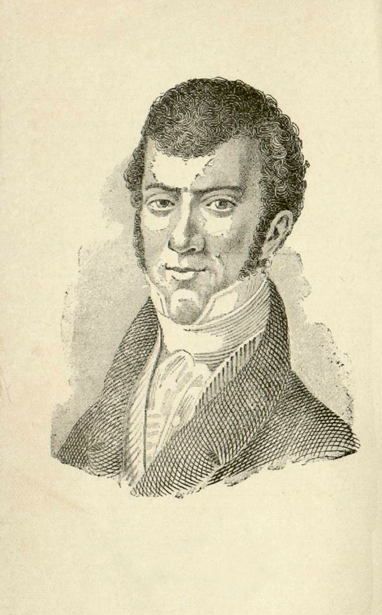 Manuel Eduardo de Gorostiza (1789-1851) playwright, journalist and Mexican diplomat.